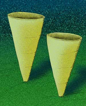 Reconstruction of the Precambrian organism, Thectardis avalonensis, of Mistaken Point, Canada